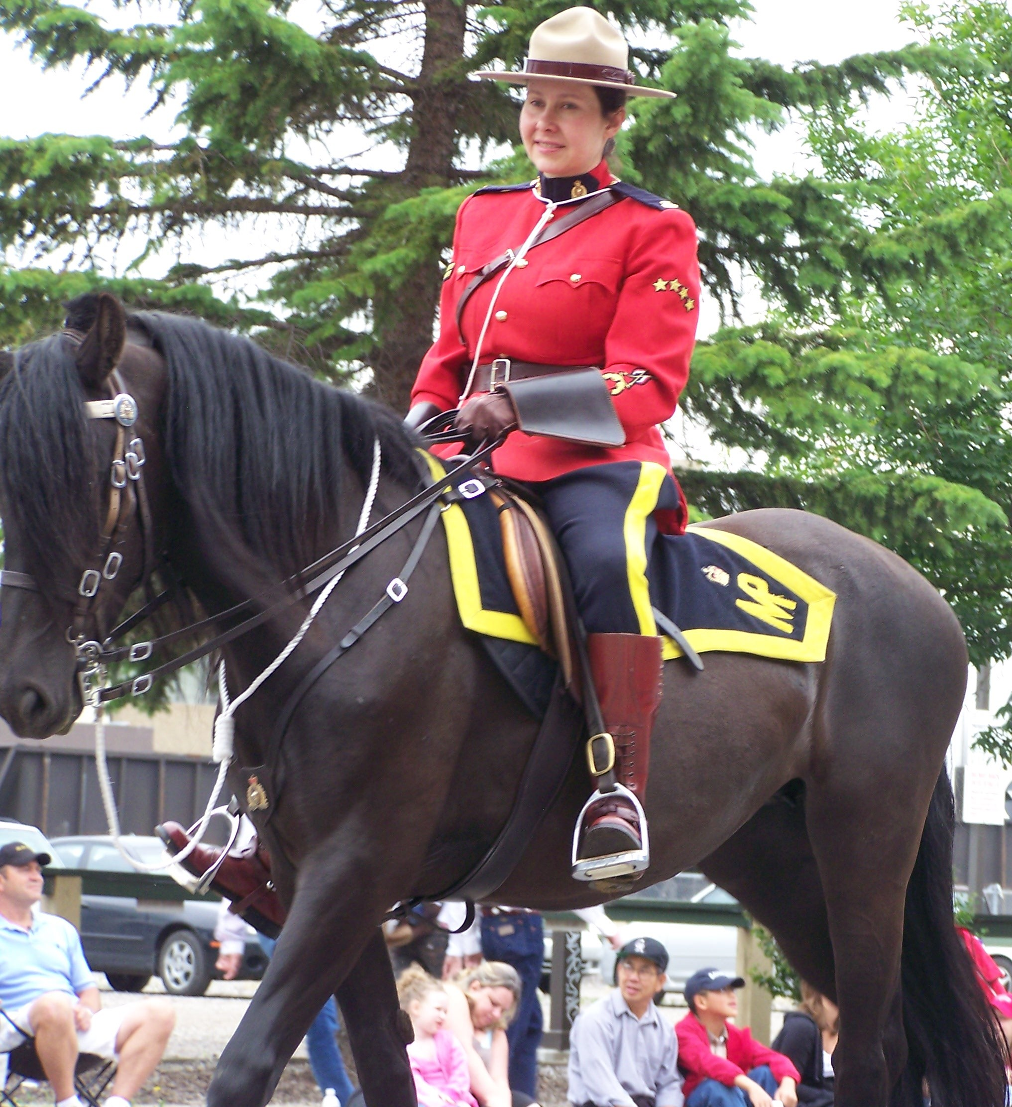 A female RCMP officer riding a horse at the 2008 Calgary Stampede Parade in Calgary, Alberta, Canada.